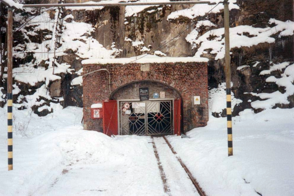 Adit of the former uranium mine Poehla, Erzgebirge, Germany: the adit is nearly 8 km long and connected to the Sn-Zn-Fe exploration area Haemmerlein (at about 3 km, exploration only, today visitor mine) and the U-Fe mining area Tellerhaeuser at 7 km. Construction of the adit began in 1967, uranium production started in 1983 and ended in 1991.